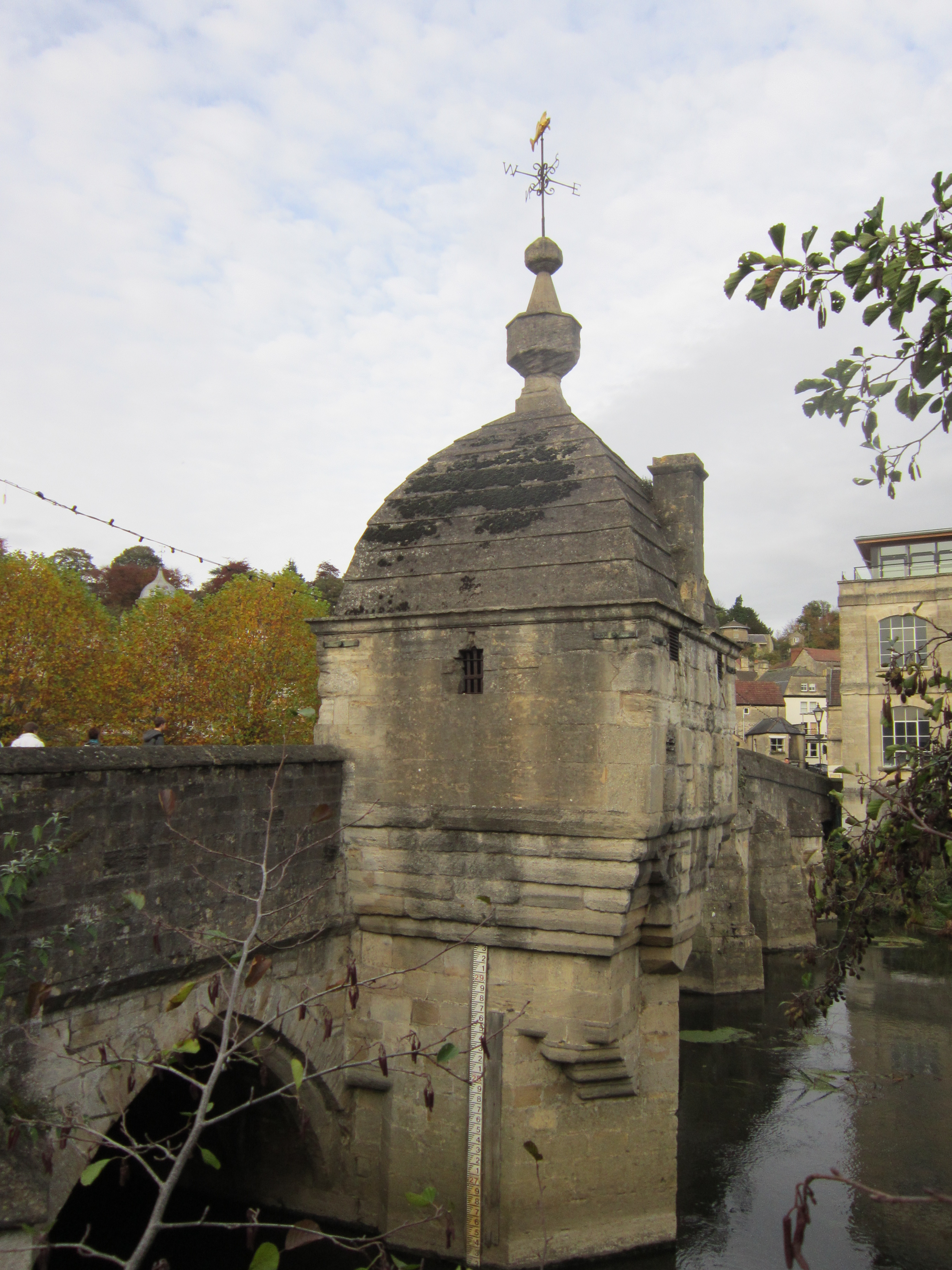 Village lock-up in Bradford on Avon, Wiltshire, with the unusual fish-shaped weather vane